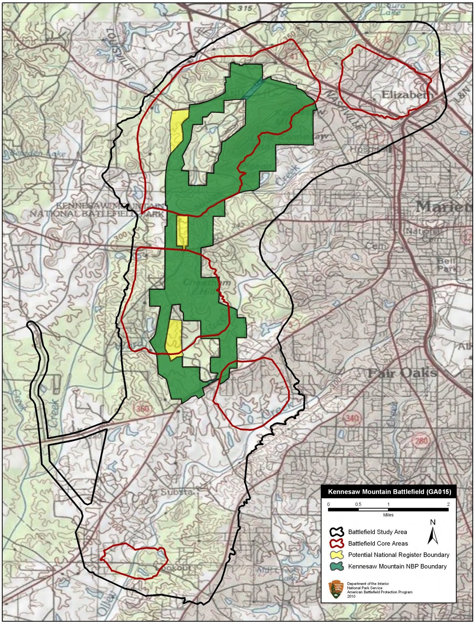 Map of battlefield core and study areas. The ABPP expanded the 1993 Study Area to include Federal movements and skirmishing at Olley Creek. The 1993 Core Area was reduced to reflect the physical contours of the landscape. Other Core Areas were added to reflect all areas of combat.